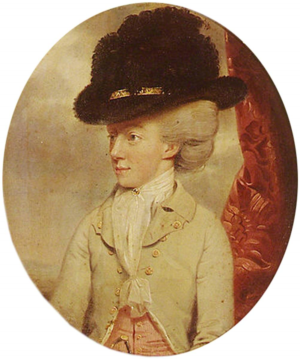 Charity Treby Ourry (1752-1786) daughter of Admiral Paul Ourry of Plympton House, Plympton, Devon and wife of Montagu Edmund Parker (d.1831) of Whiteway House, Chudleigh, and of Blagdon, Paignton, both in Devon, Sheriff of Devon in 1789. Portrait by John Downman (1750-1824), Collection of Parker family, Saltram House, Plympton (now National Trust).